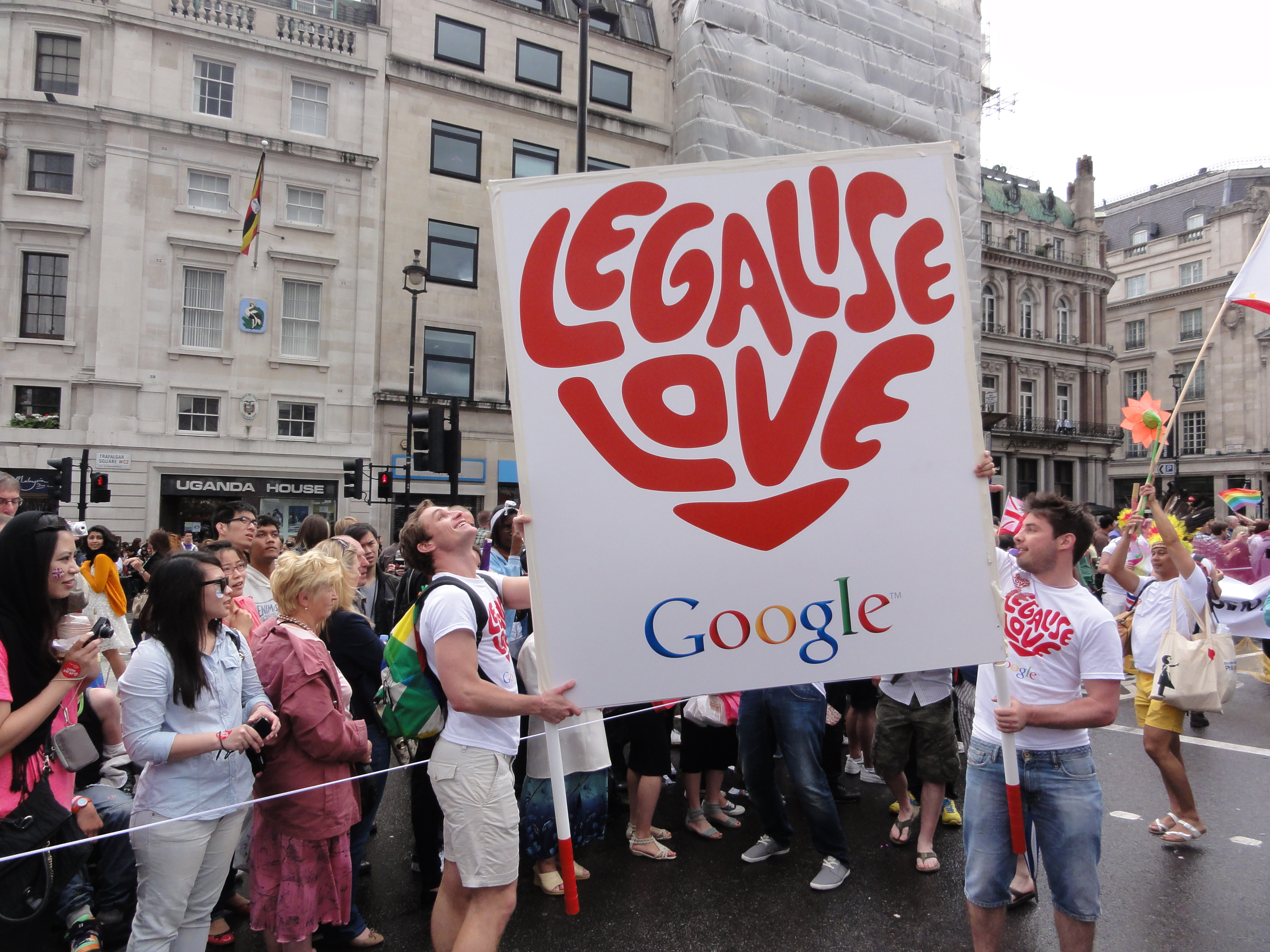 Photos taken at World Pride / London Gay Pride 2012 at Trafalgar Square.